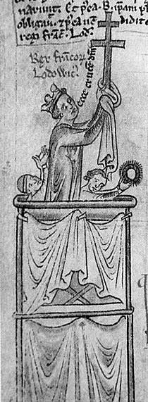 Historical image showing Louis IX of France with the True Cross and the Crown of Thorns brought by him to Paris in 1239.